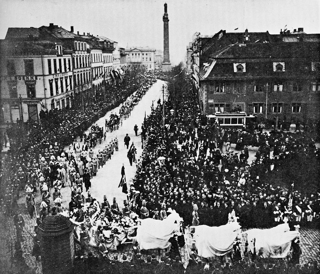 The burial of Princess Elisabeth of Hesse and by Rhine / The funeral procession ahead Darmstadt's Palace.